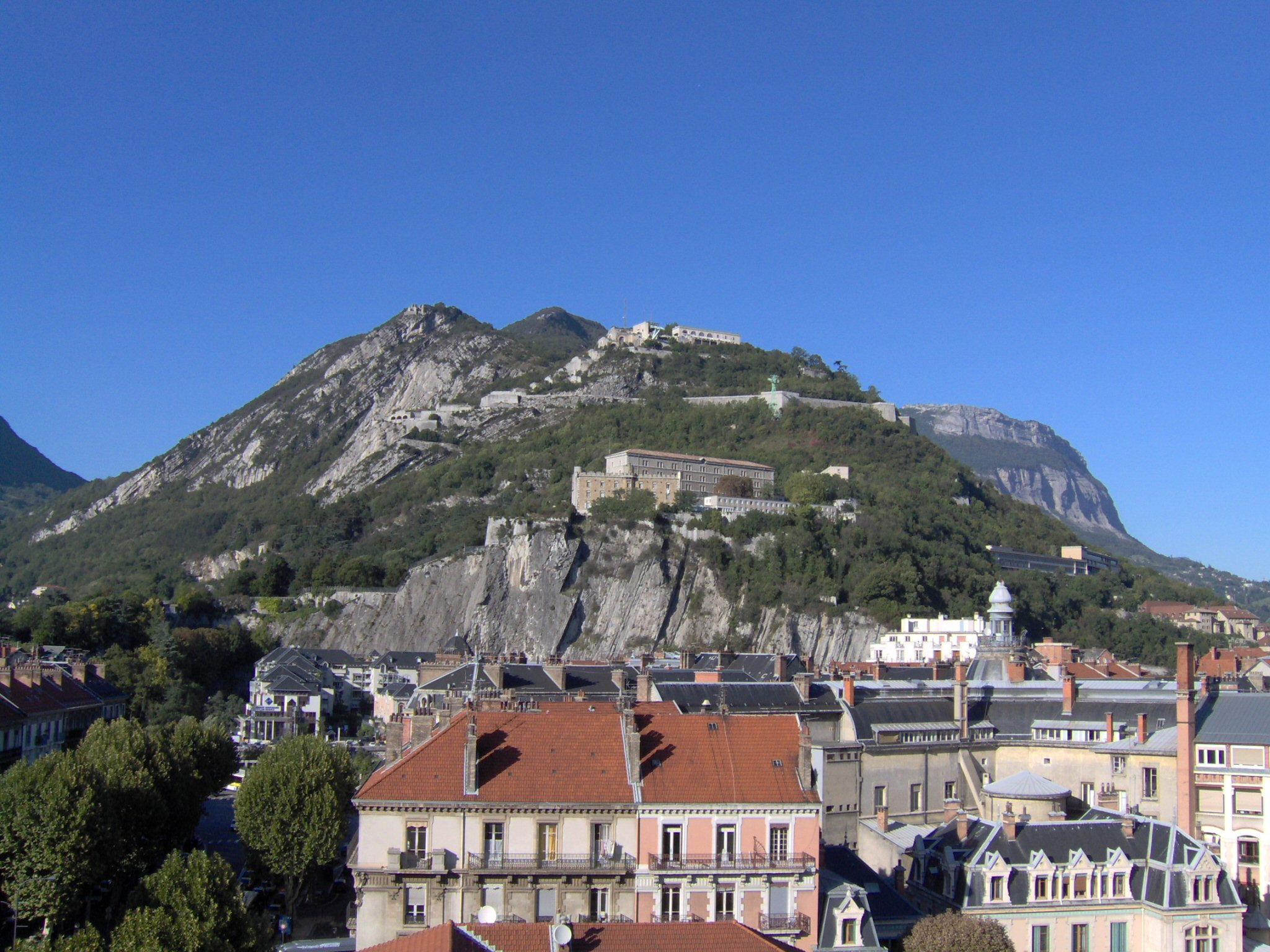 Grenoble, the fort of the Bastille and the Rabot fort